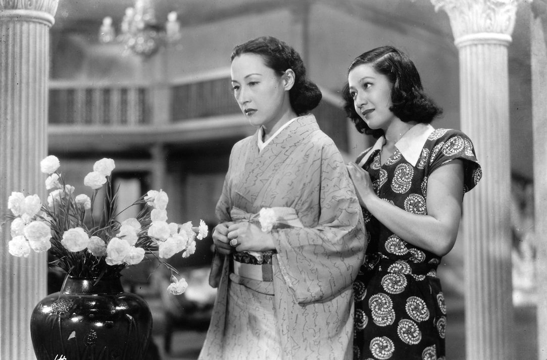 Yumeko Aizome and Setsuko Hara in the 1947 film A Ball at the Anjo House